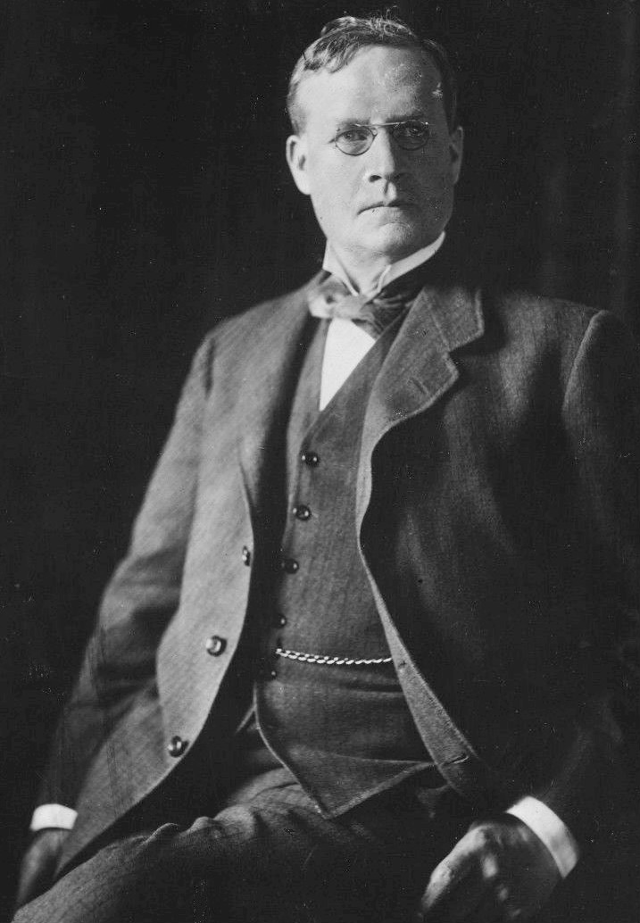 Photo of David Alfred Thomas a passenger of the RMS Lusitania. (survived)